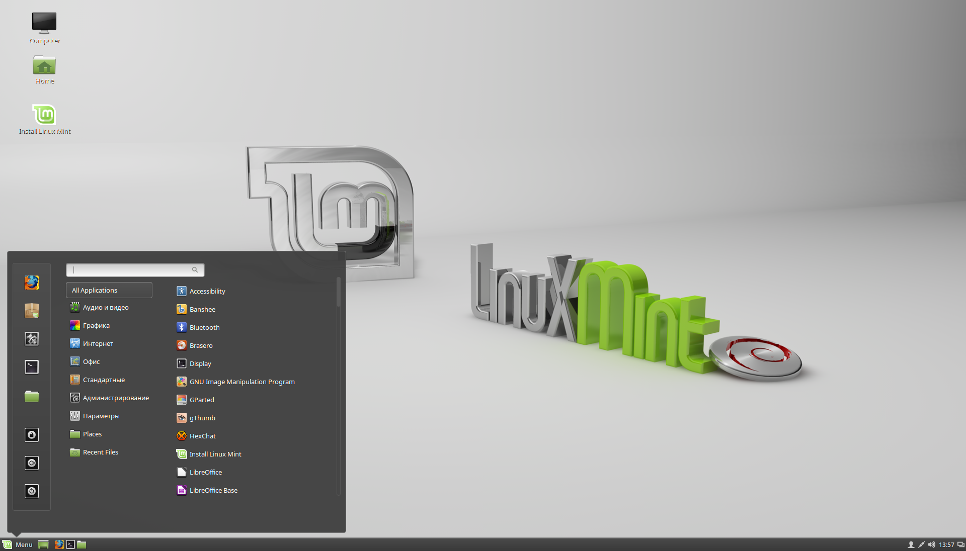 Linux Mint Debian Edition Cinnamon 2 screenshot